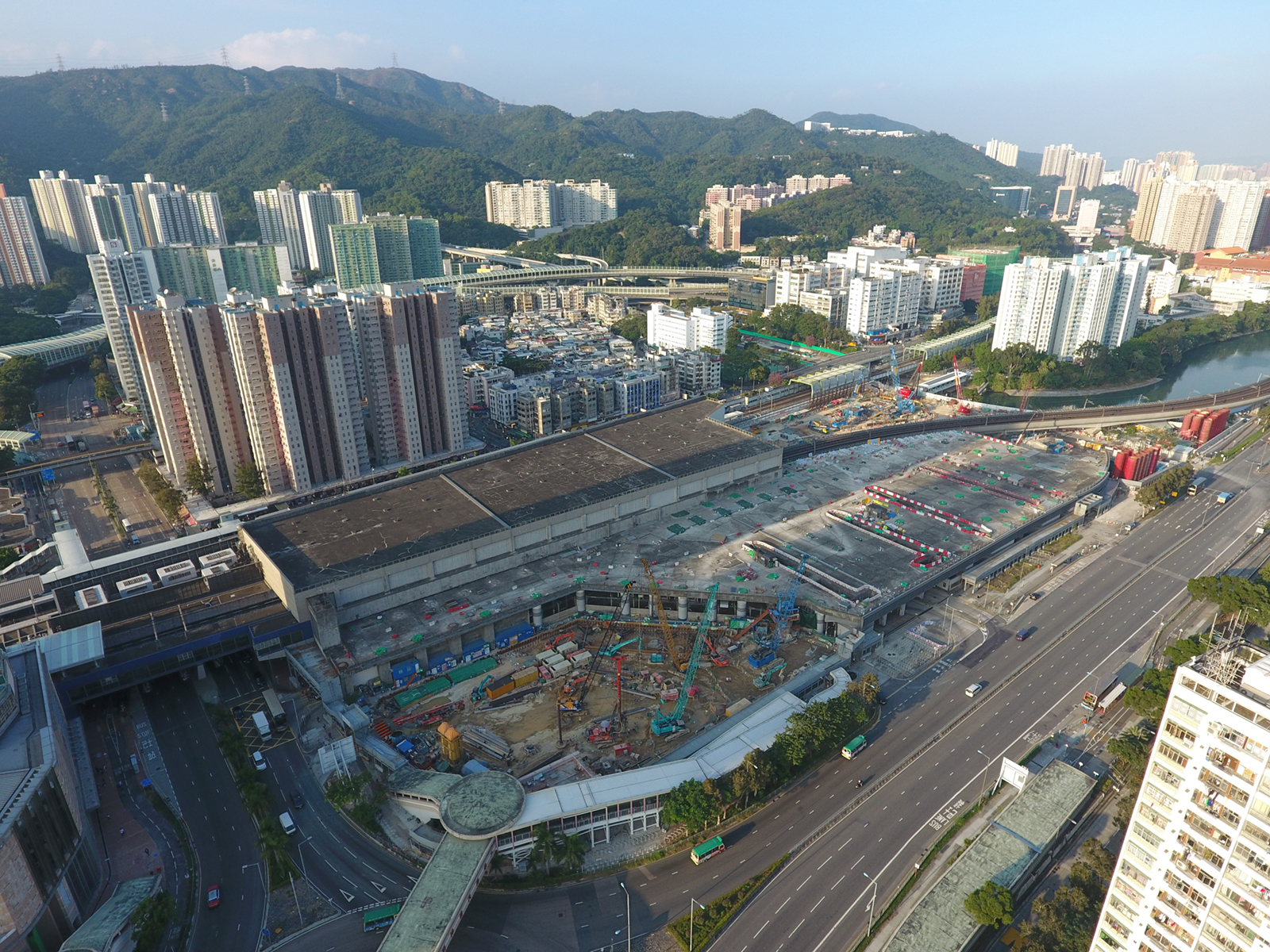 Tai Wai Station Property Site View